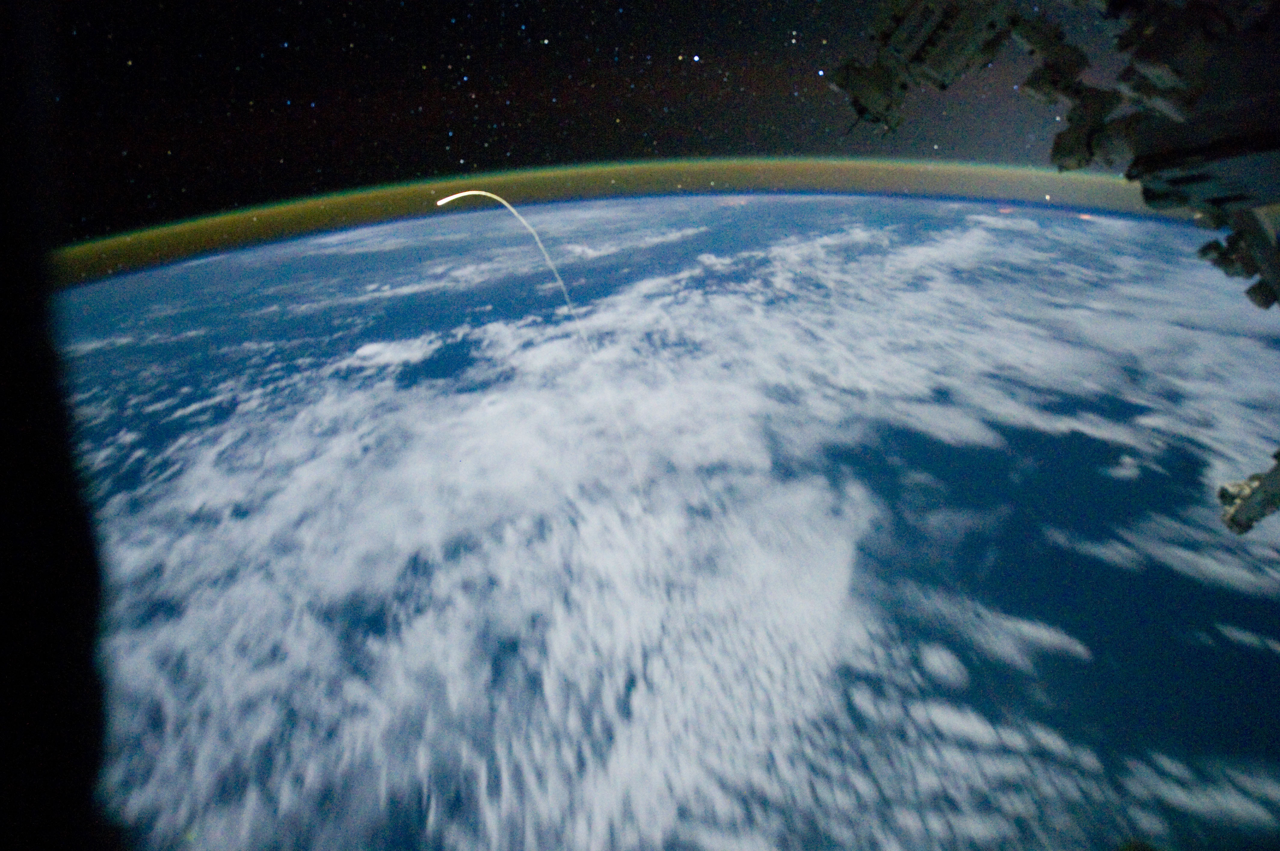 Like a comet streaking across the atmosphere, the Space Shuttle Atlantis left space for the final time on July 21, 2011, descending to a smooth landing at NASA’s Kennedy Space Center in Florida. This astronaut photograph, taken from the vantage of the International Space Station (ISS), shows the streak of an ionized plasma plume created by the shuttle’s descent through the atmosphere. At the time of the image, the ISS was positioned northwest of the Galapagos Islands, while Atlantis was roughly 2,200 kilometers (1,367 miles) to the northeast, off the east coast of the Yucatan Peninsula. The maximum angle of the shuttle’s descent was roughly 20 degrees, though it appears much steeper in the photo because of the oblique viewing angle from ISS. Parts of the space station are visible in the upper right corner of the image. In the background of the image, airglow hovers over the limb of the Earth. Airglow occurs as atoms and molecules high in the atmosphere (above 80 kilometers, or 50 miles altitude) release energy at night after being excited by sunlight (particularly ultraviolet) during the day. Much of the green glow can be attributed to oxygen molecules.